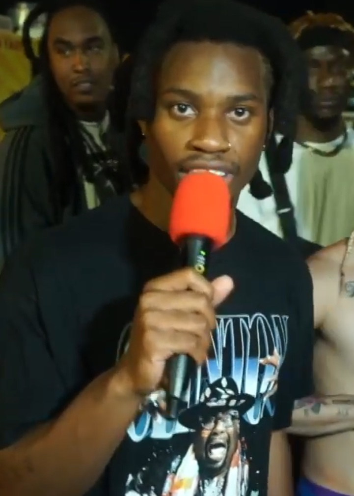 Denzel Curry during an interview after the Rolling Loud festival in May 2019